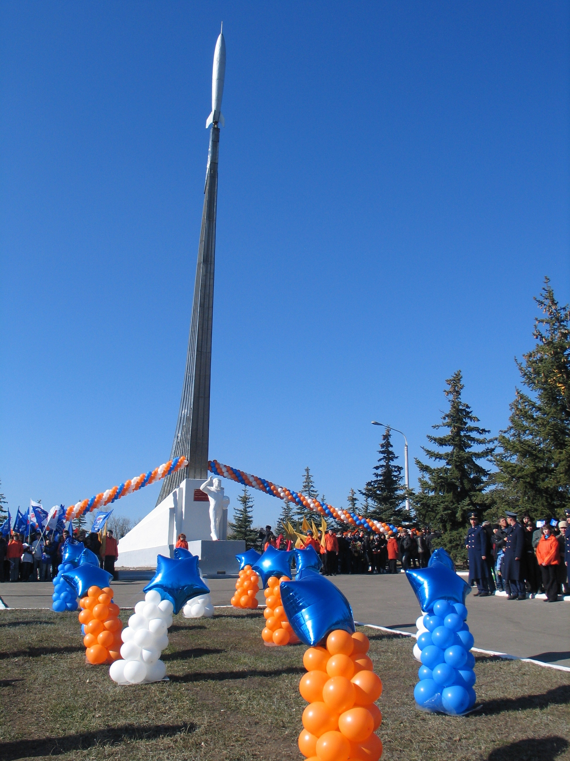 Gagarin field near Engels City